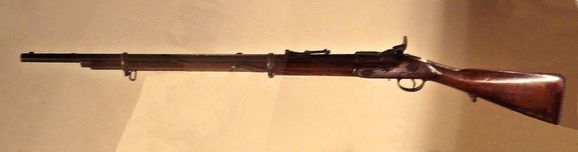 Similar to another image but swapped it so the hammer and lockplate will be in the right side.